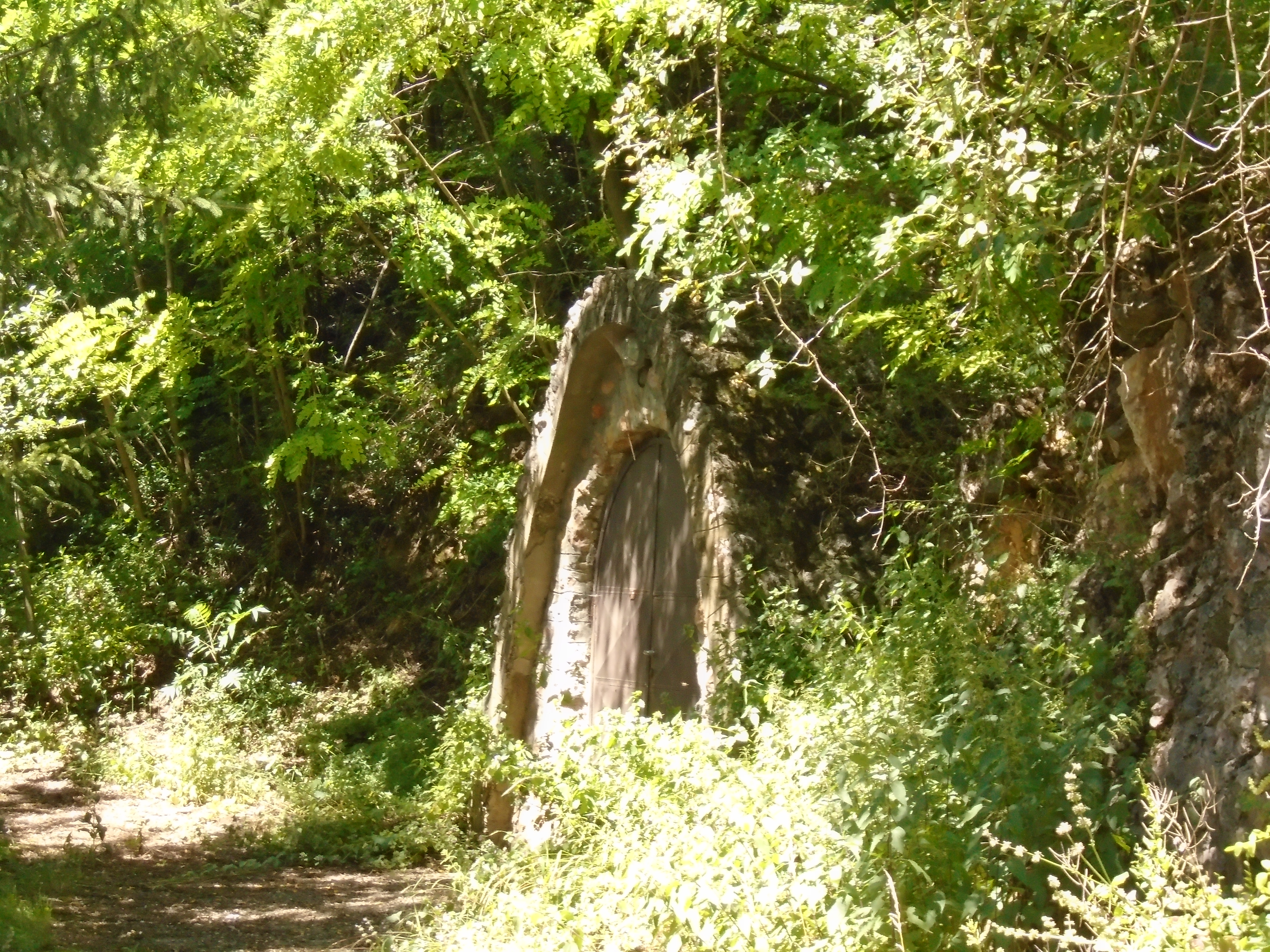 Csörgő Spring Cave in Szögliget.